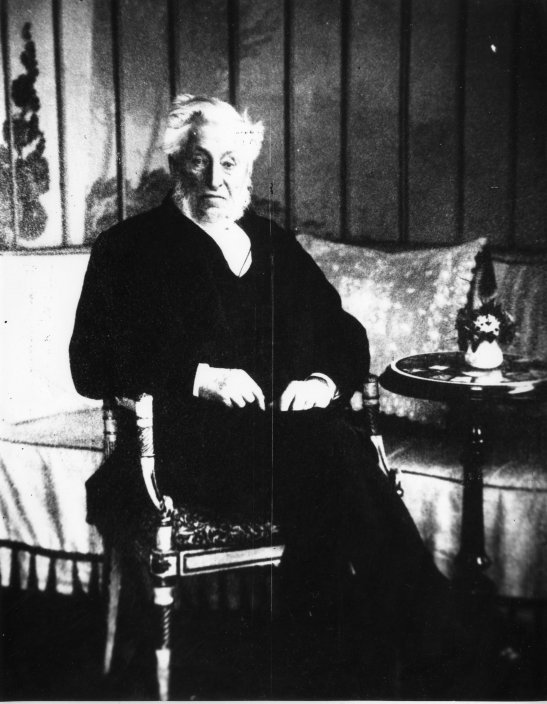 John Donnithorne Taylor (died 1885)